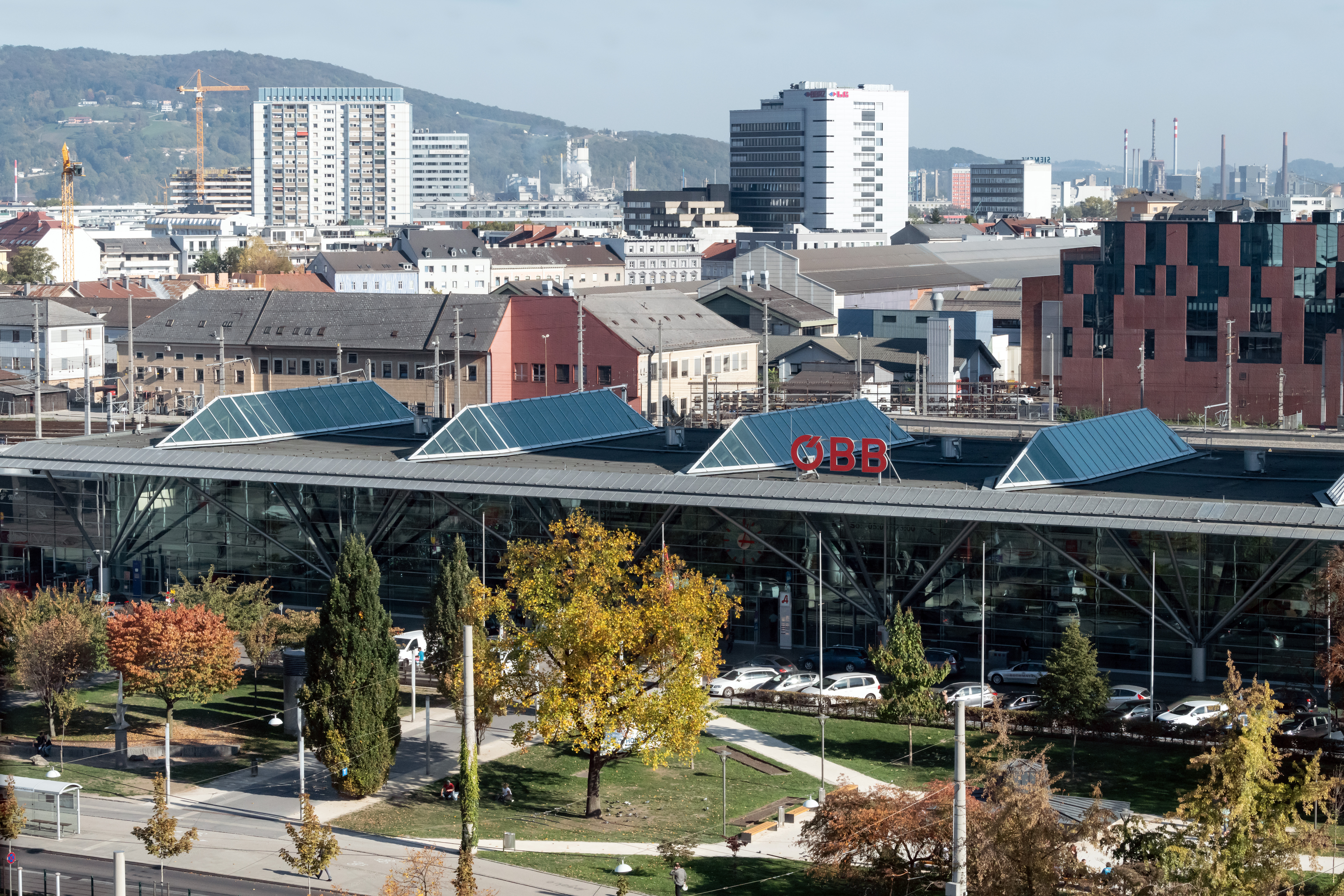 Linz Hauptbahnhof, seen from the seventh floor of the Wissensturm (Linz, Austria).